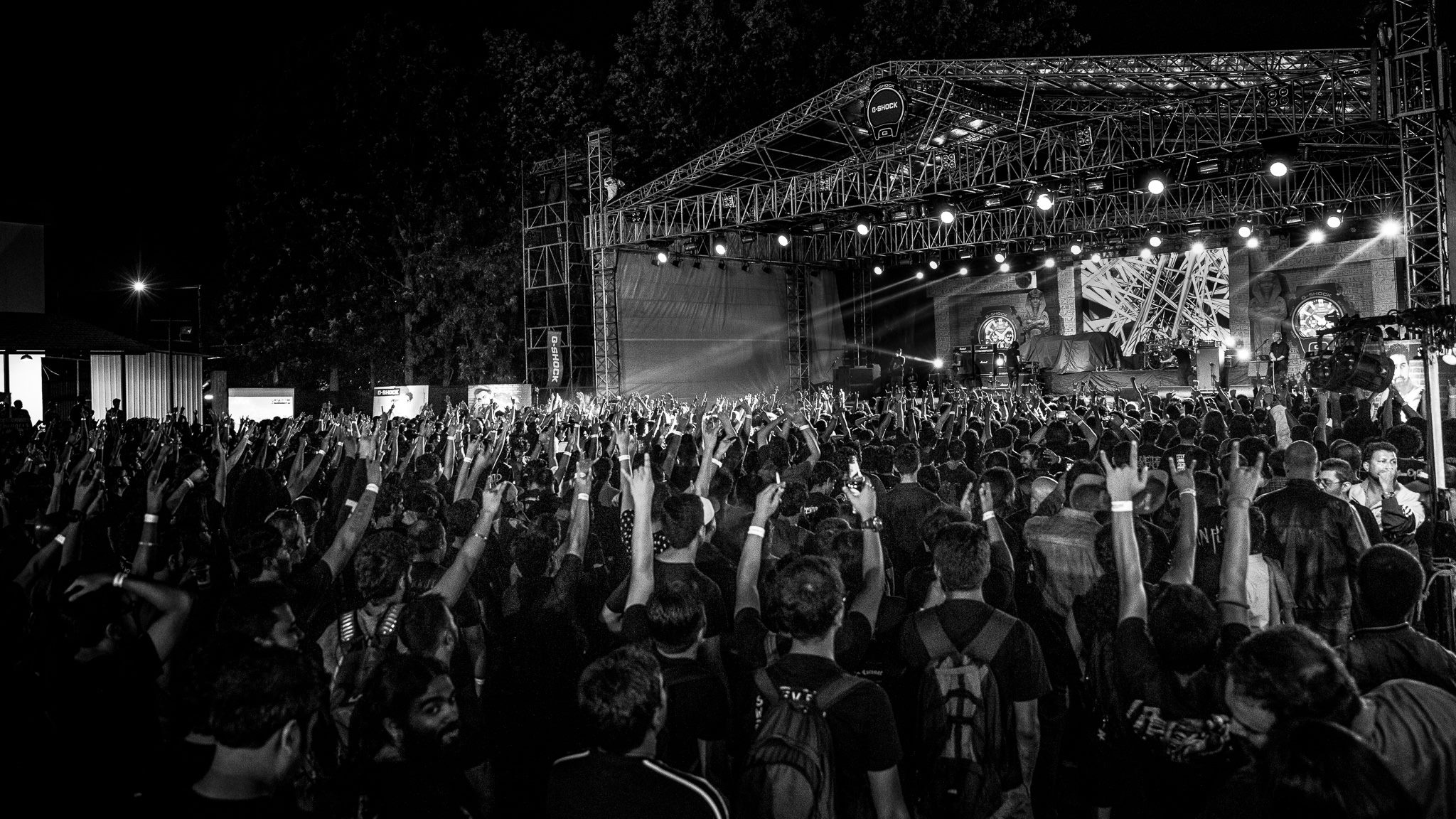 crowd in front of stage